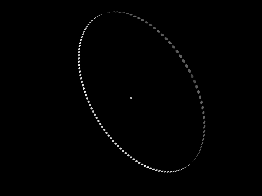 An illustration of a Dyson Ring. To scale. Sun is accurately colored according to spectral type. Orbit is depicted at 1 AU radius. Collectors are 1.0 x 107 km in diameter, or ~25 times the distance between the Earth and the Moon. Collectors are spaced 3 degrees from midpoint to midpoint, around the orbital circle. Camera perspective is from a point 2 AU from